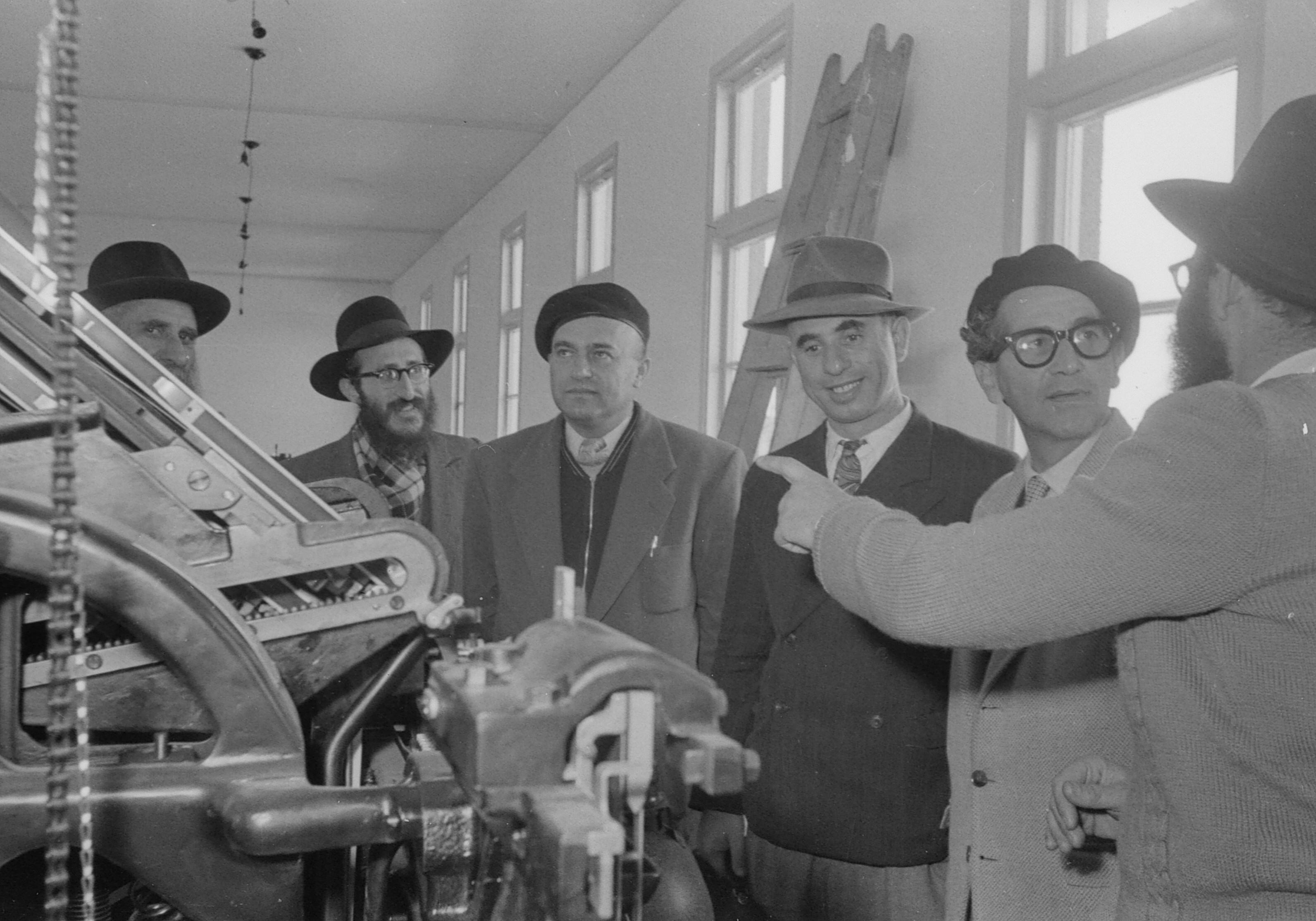 People of Israel